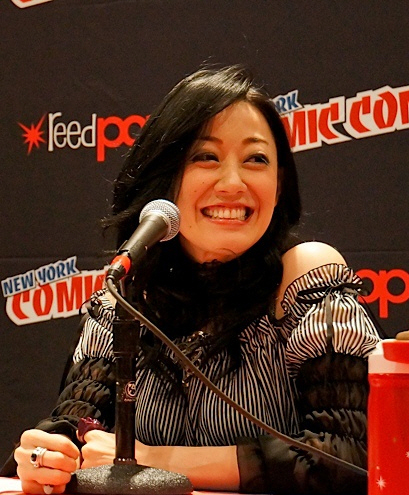 Japanese voice actress Yu Asakawa photographed on Day 2 of the 2012 New York Comic Con, Friday October 12, 2012 at the Jacob K. Javits Convention Center in Manhattan.